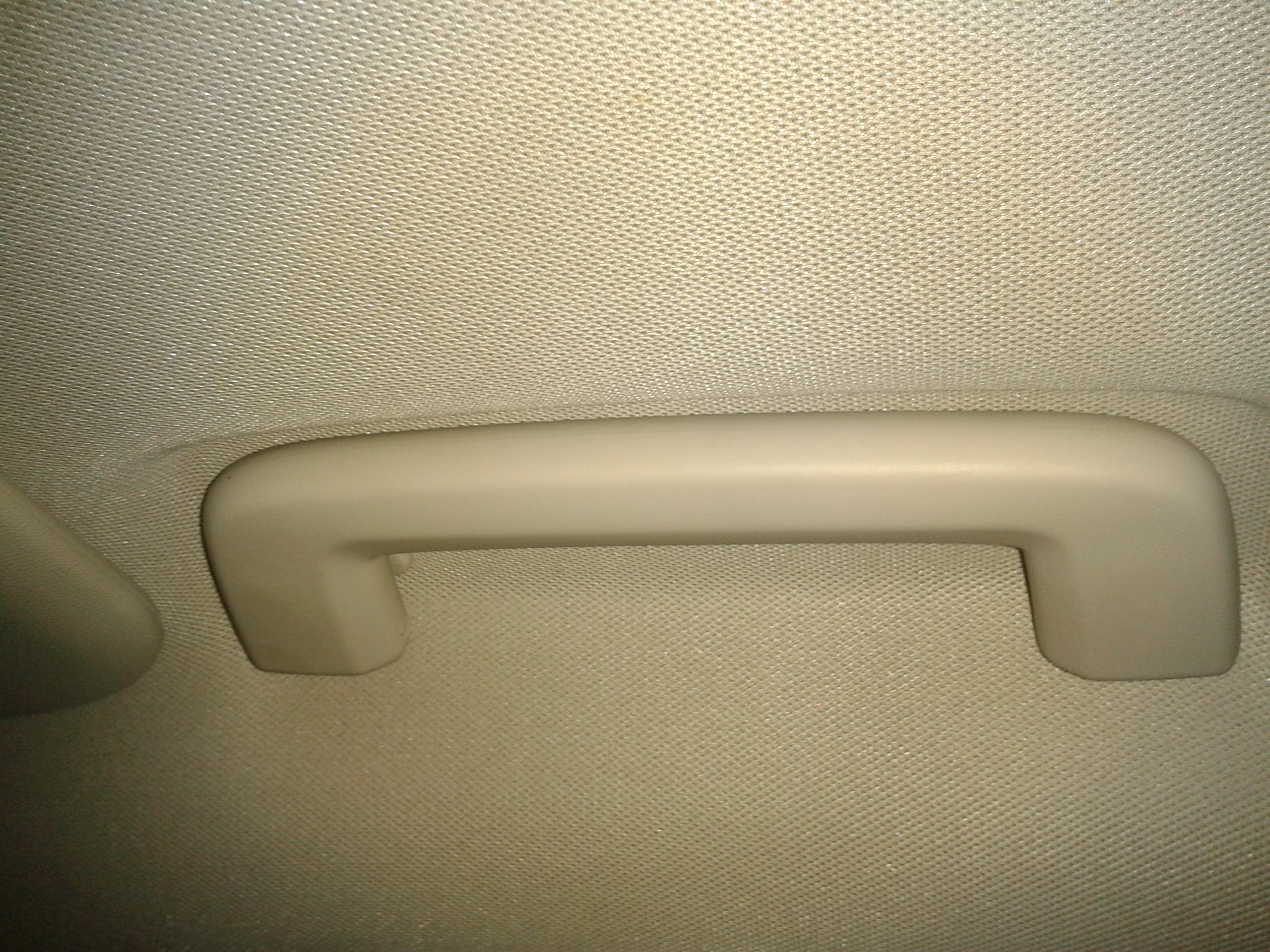 Car-Handhold (roof) (Ford Focus)